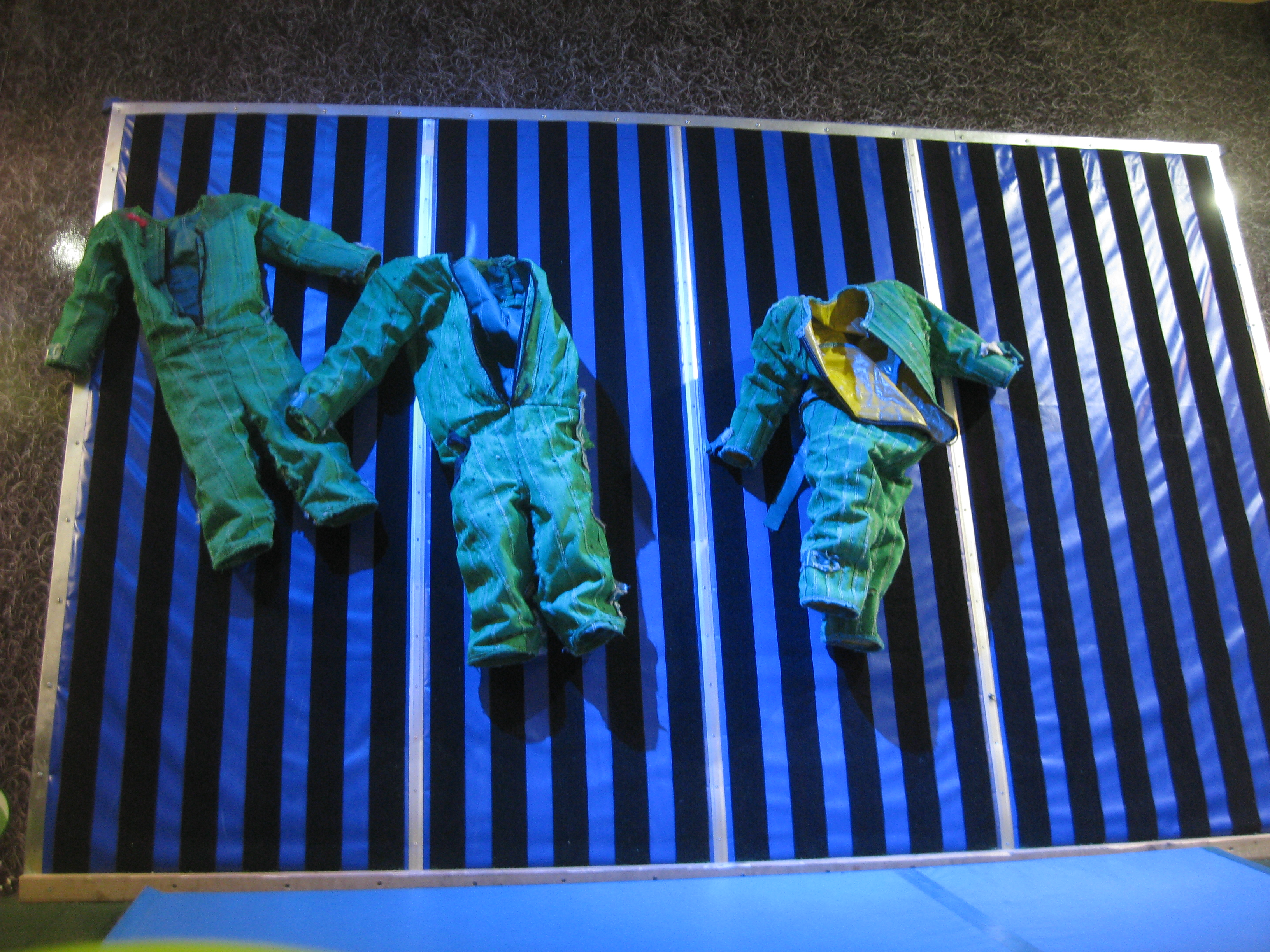 Jumpsuits with velcro. Universeu, Gothenburg, Sweden.